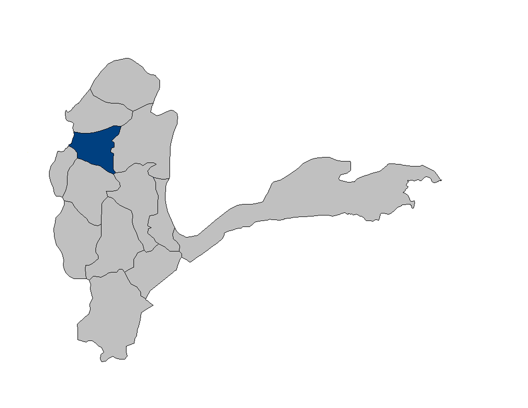 Location map for the Ragh District of Badakhshan Province, Afghanistan. Original map source: Image:Badakhshan districts.png